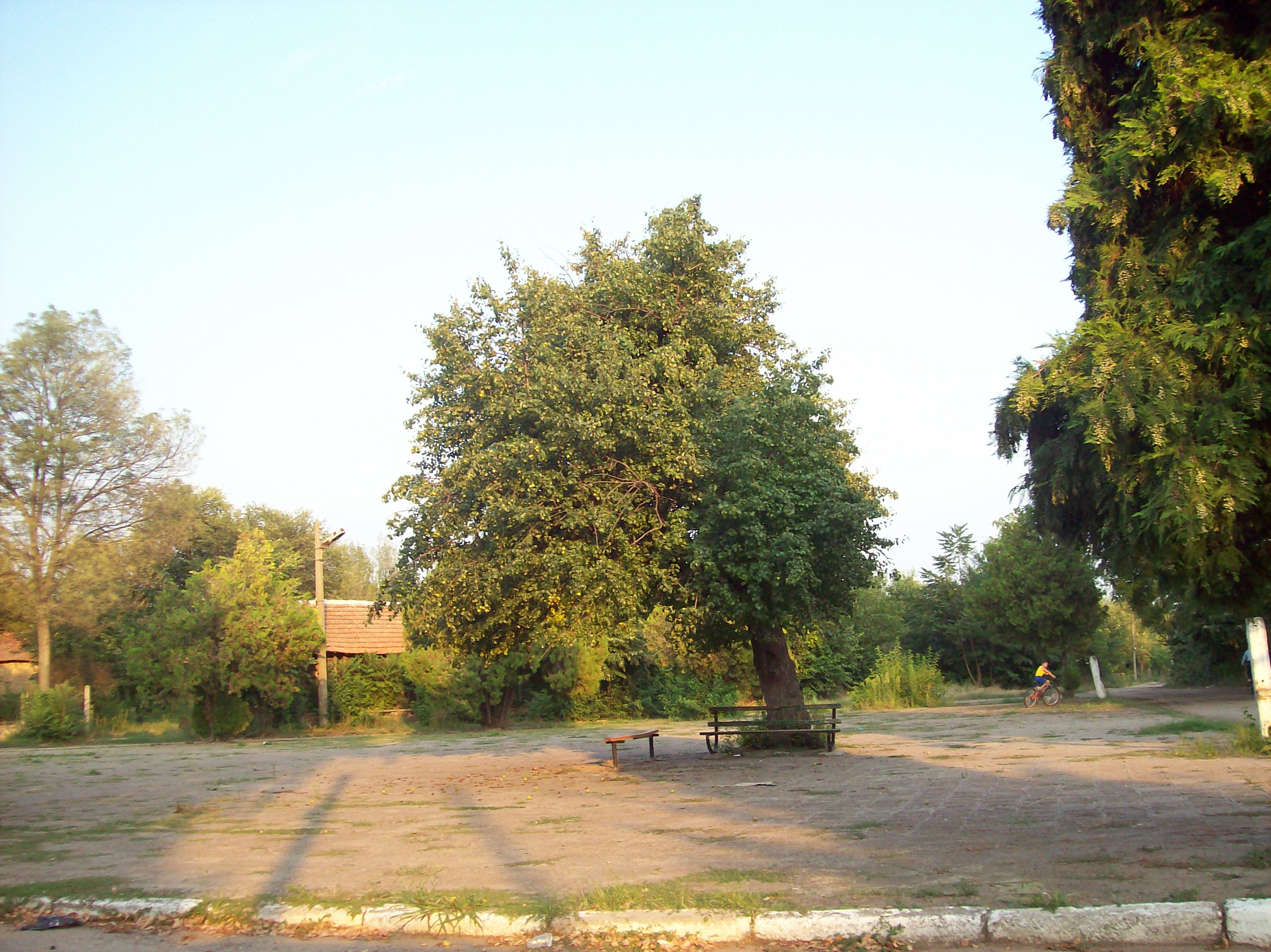 tree of Labec centre